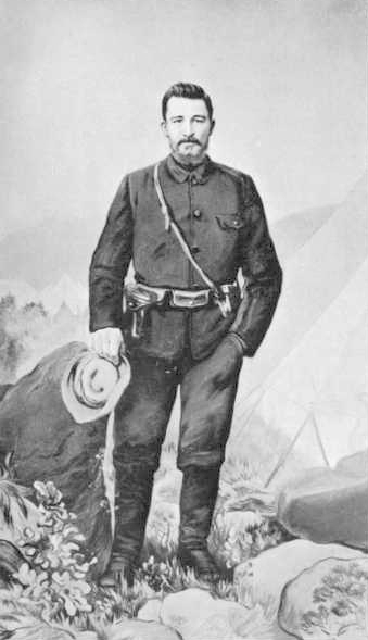 General Christiaan de Wet Taken from In the Shadow of Death by P.H. Kritzinger and R.D. McDonald, published in 1904.